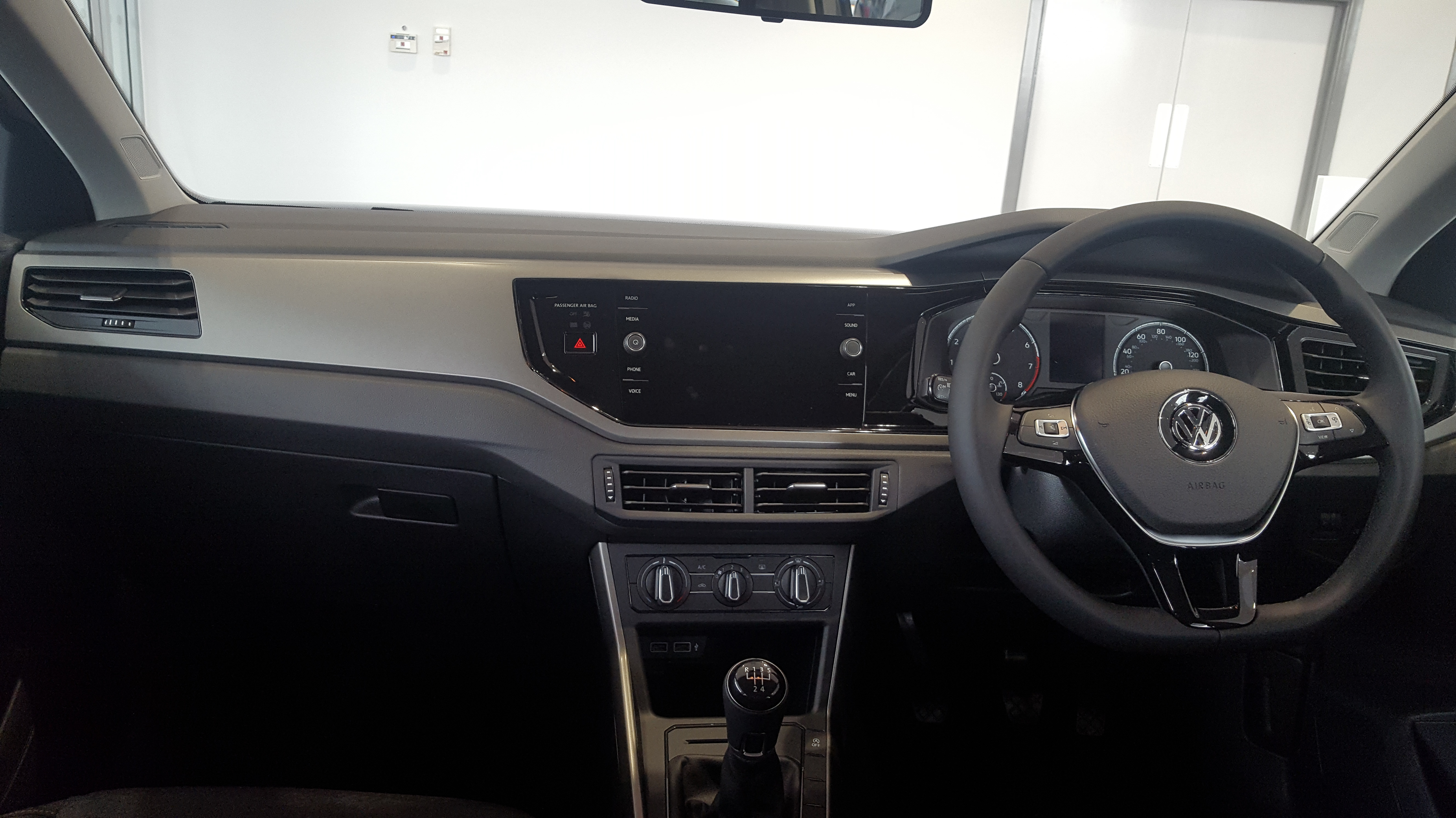 2018 Volkswagen Polo SE TSi BlueMotion 1.0 Interior Taken in Leamington Spa